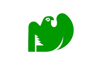 Flag of Sugito Saitama